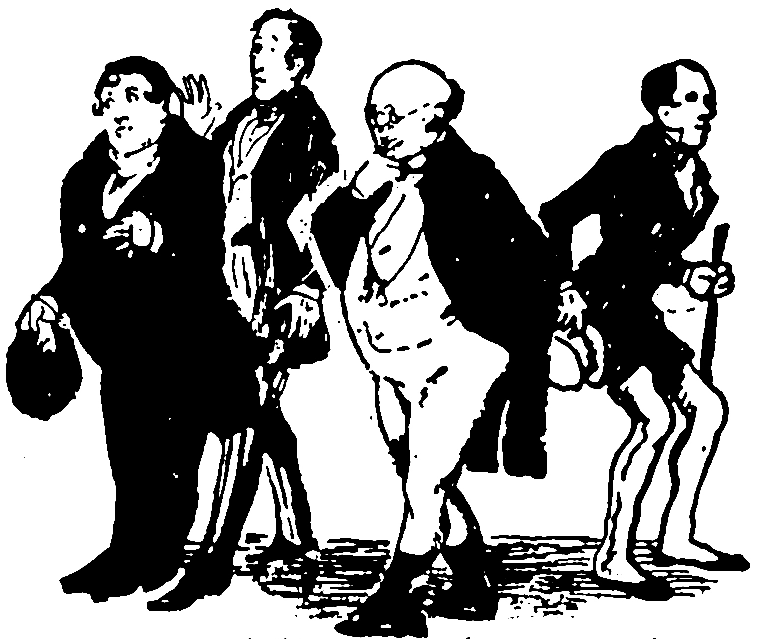 The Posthumous Papers of the Pickwick Club. Tracy Tupman, Nathaniel Winkle, Samuel Pickwick and Augustus Snodgrass.